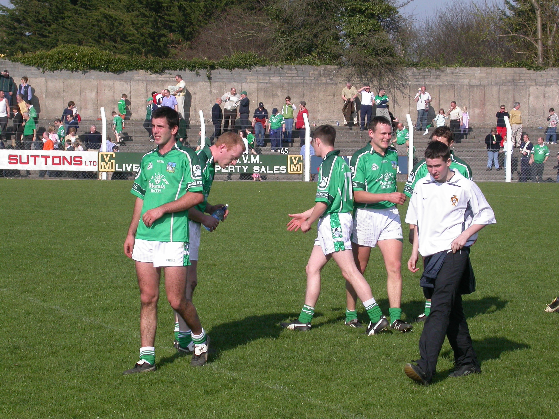 Peileadoiri Luimnigh tar eis buachaint ar Chill Mhantain, 6/4/2003 ag Sean an Scuab